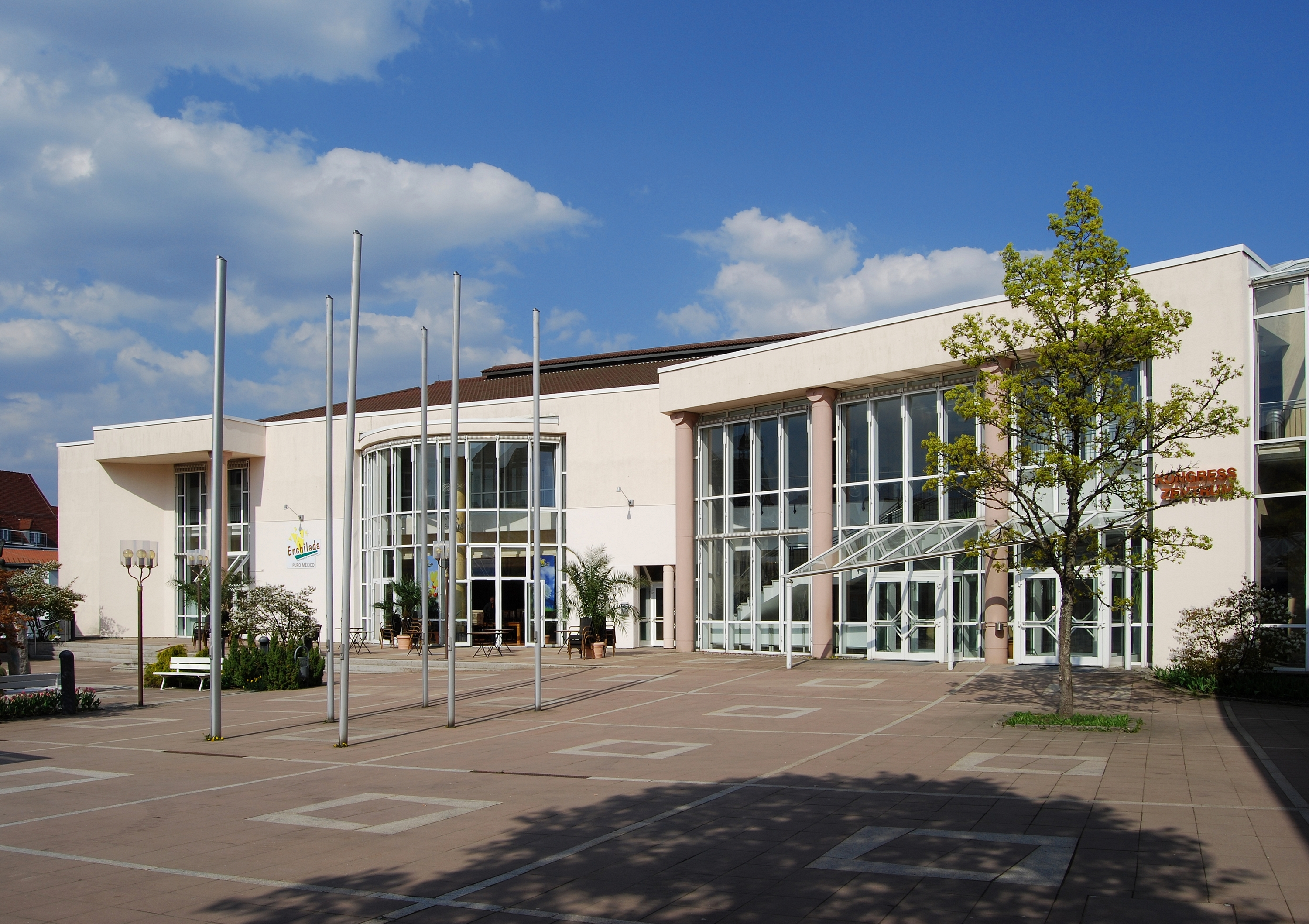 Congress Center of Freudenstadt, Baden-Württemberg.